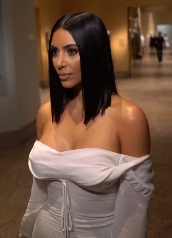 Kim Kardashian at Met Gala 2017